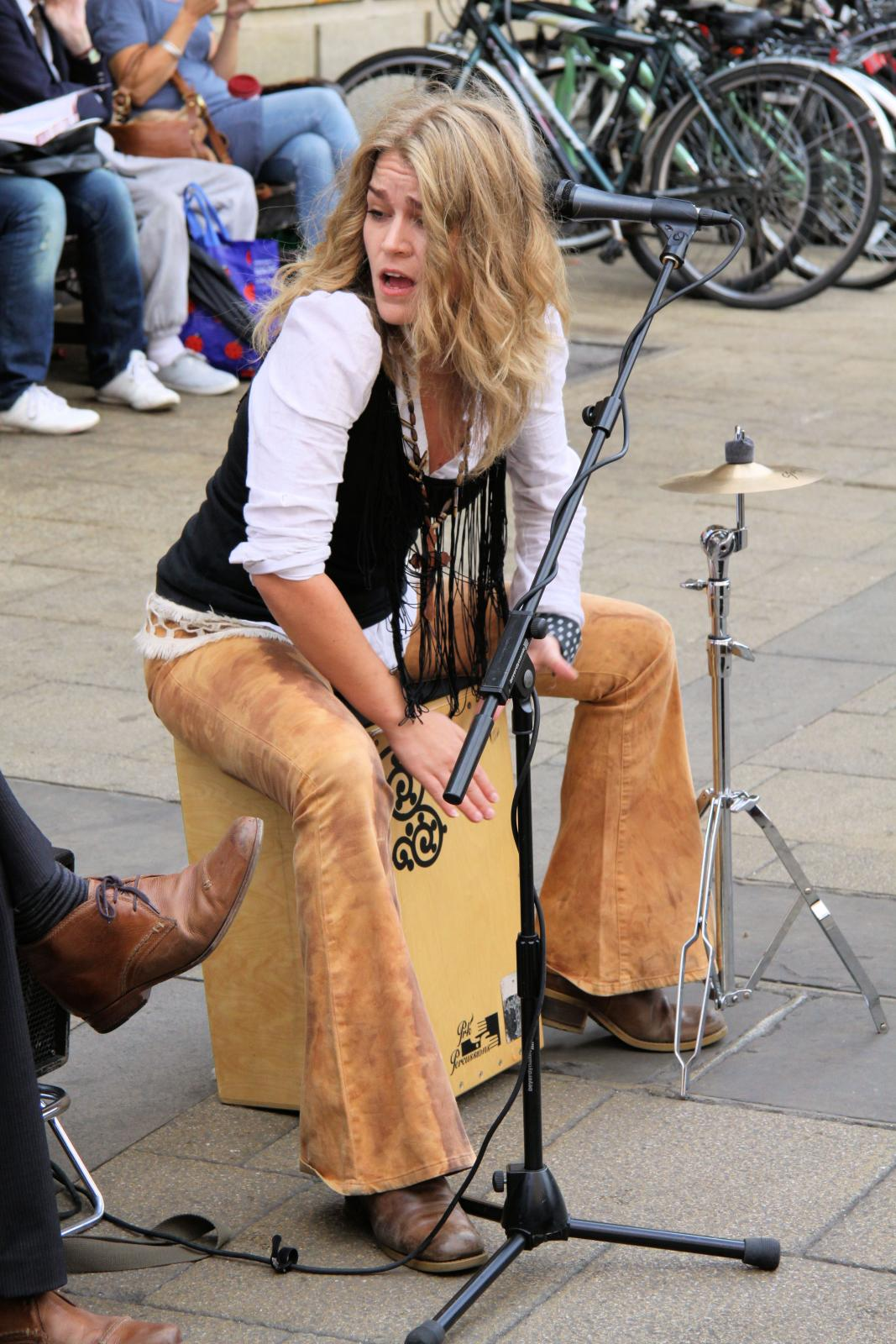 Heidi Joubert of Fernando's Kitchen playing a Cajon, a Latin American percussion instrument, also called a box drum